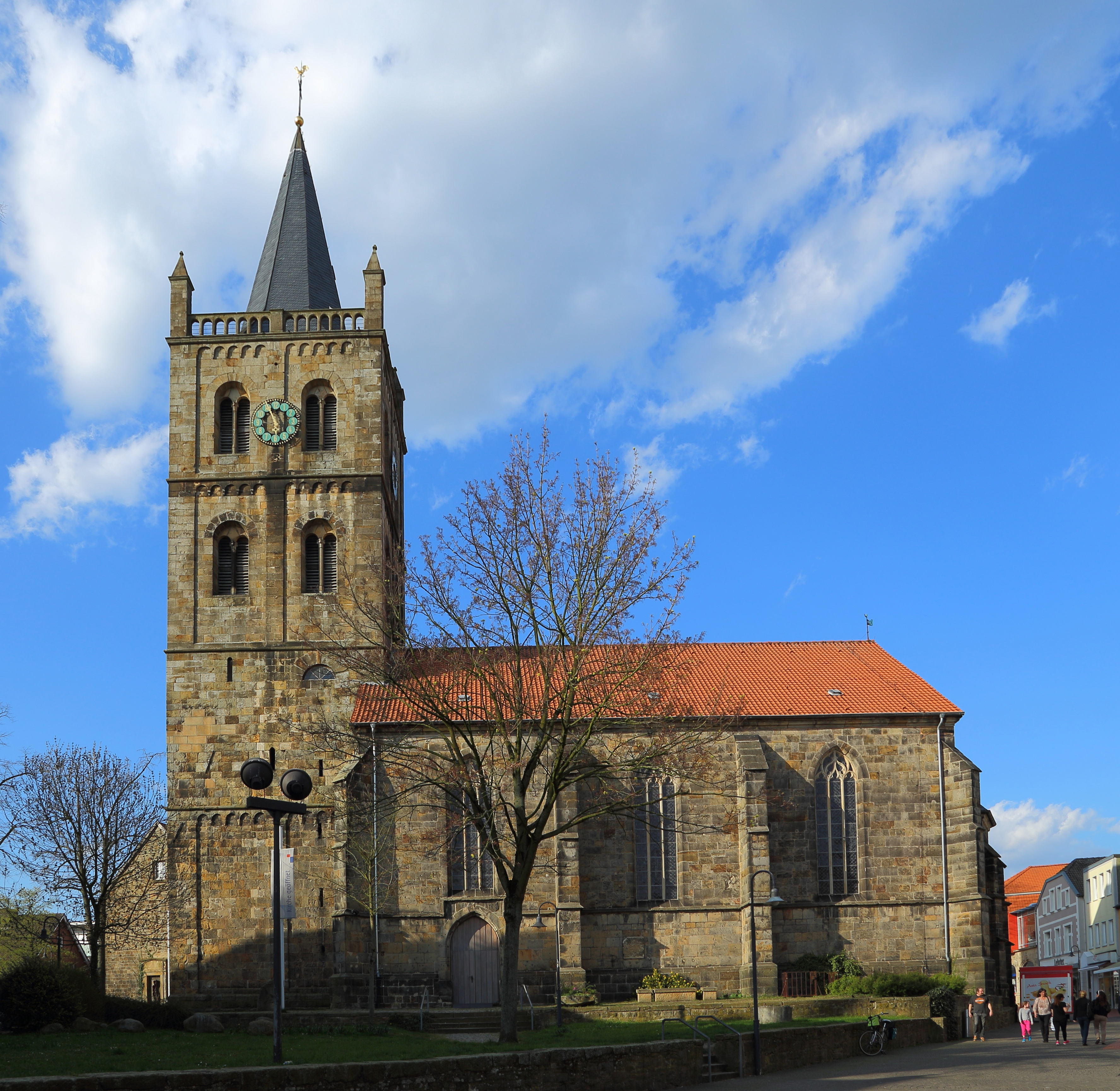 The Protestant Christ Church (Christuskirche) in Ibbenbüren, Kreis Steinfurt, North Rhine-Westphalia, Germany.